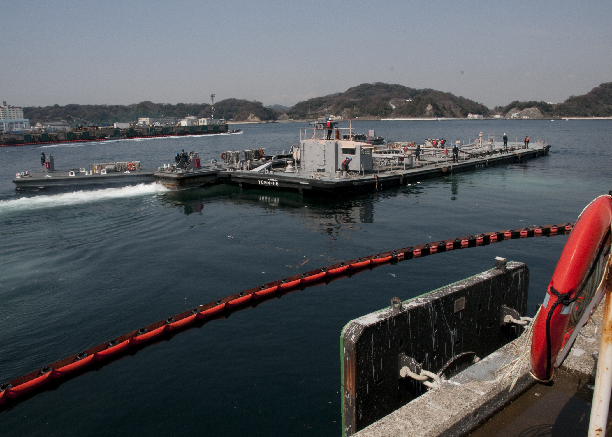 US Navy barge transports approx. 1 million liters of water to aid cooling efforts at Fukushima Daiichi nuclear plant following tsunami damage